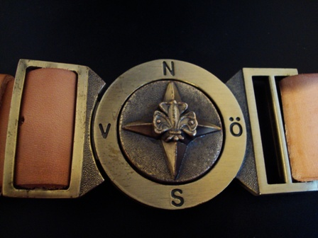 Picture of the Swedish Explorer belt buckle.